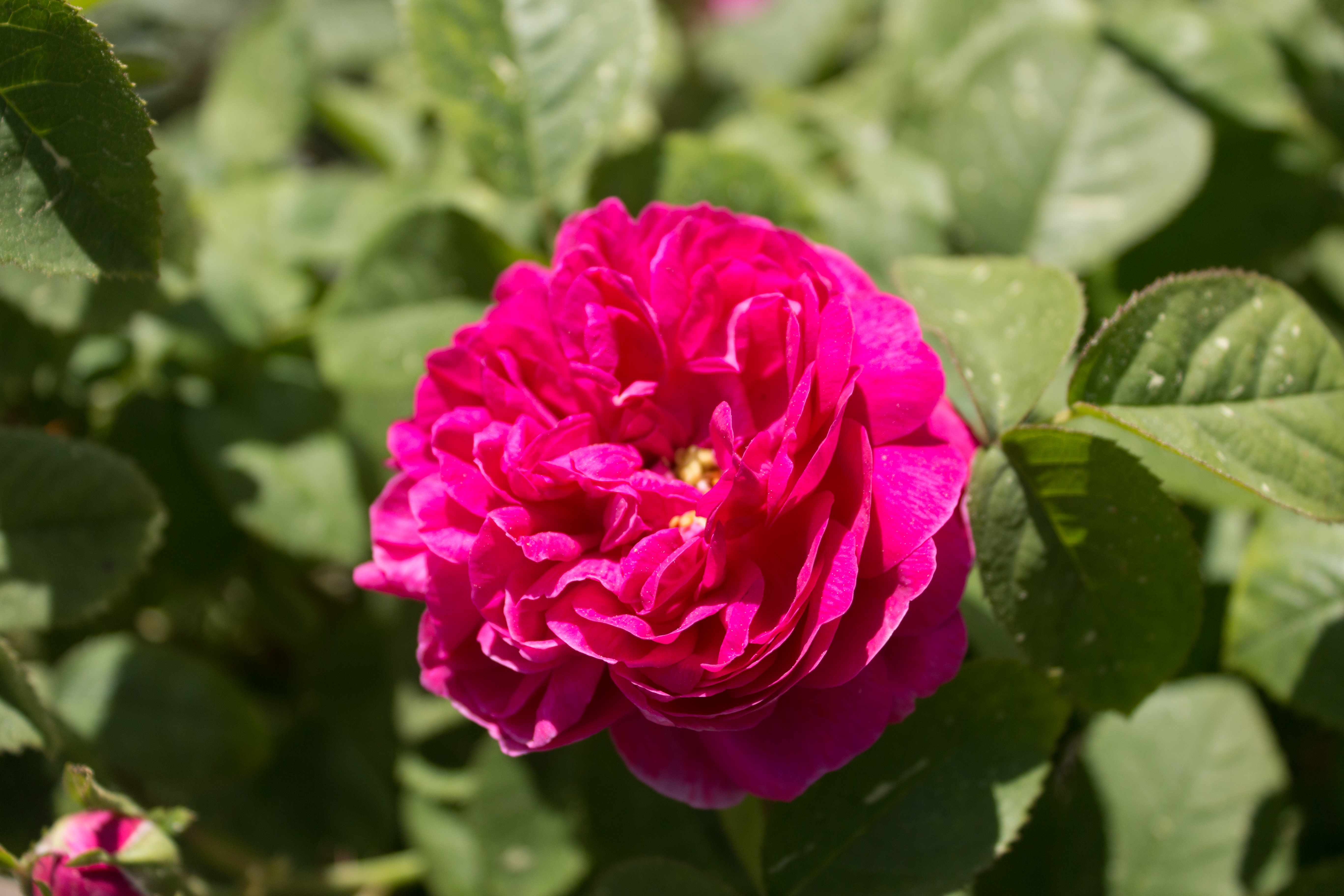 Rosa 'Rose de Rescht' growing in New Hampshire